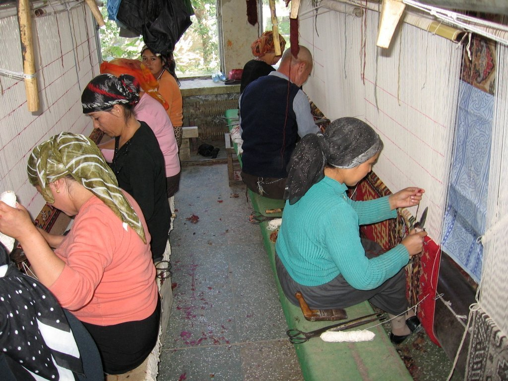 Khotan (Hotan / Hetian) is an oasis city in the Xinjiang Uygur Autonomous Region of the People's Republic of China. Carpet factory.